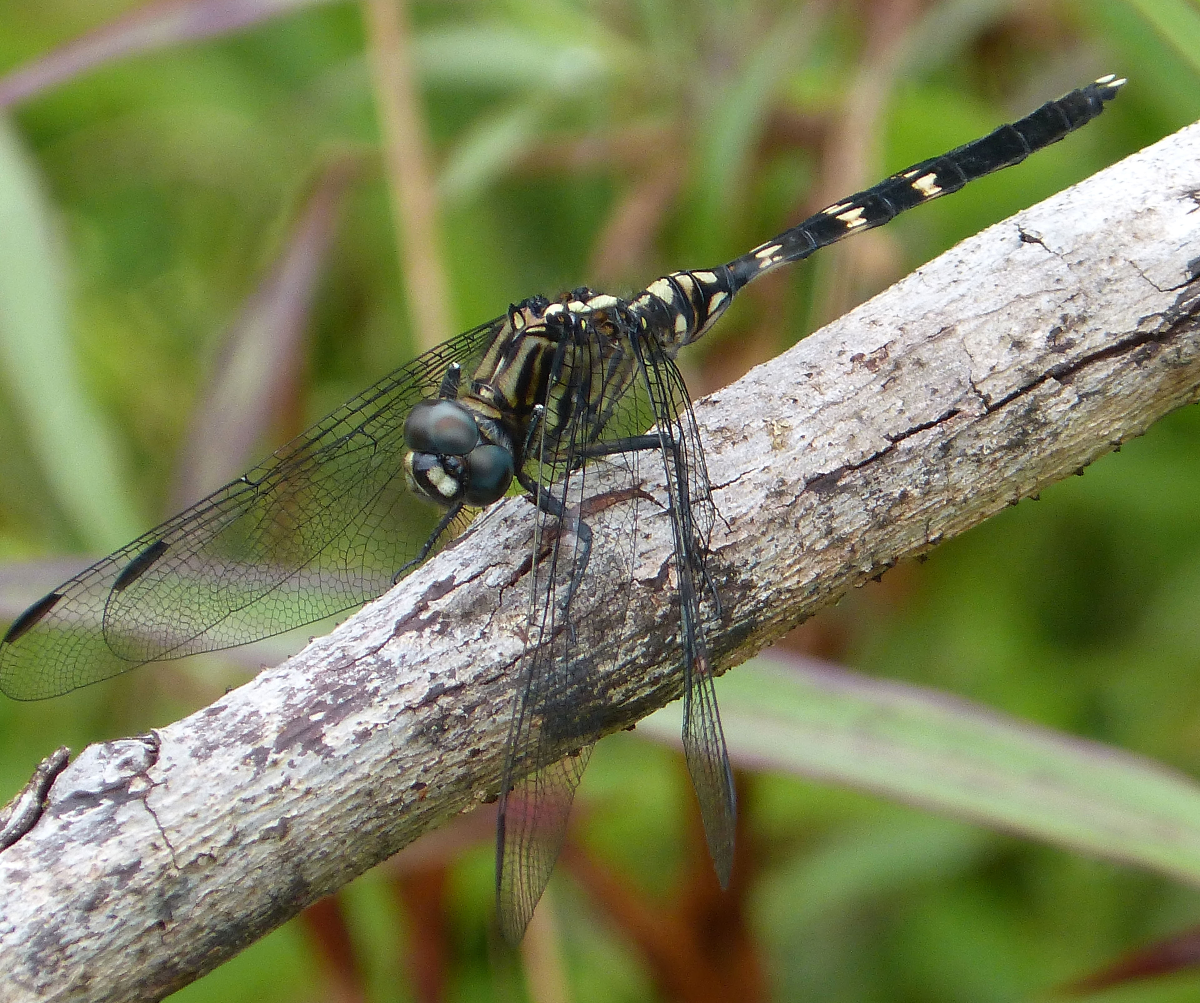 Mauritian Endemic. Three seen over two days IUCN List for endangered Species.....listed as 'Endangered'